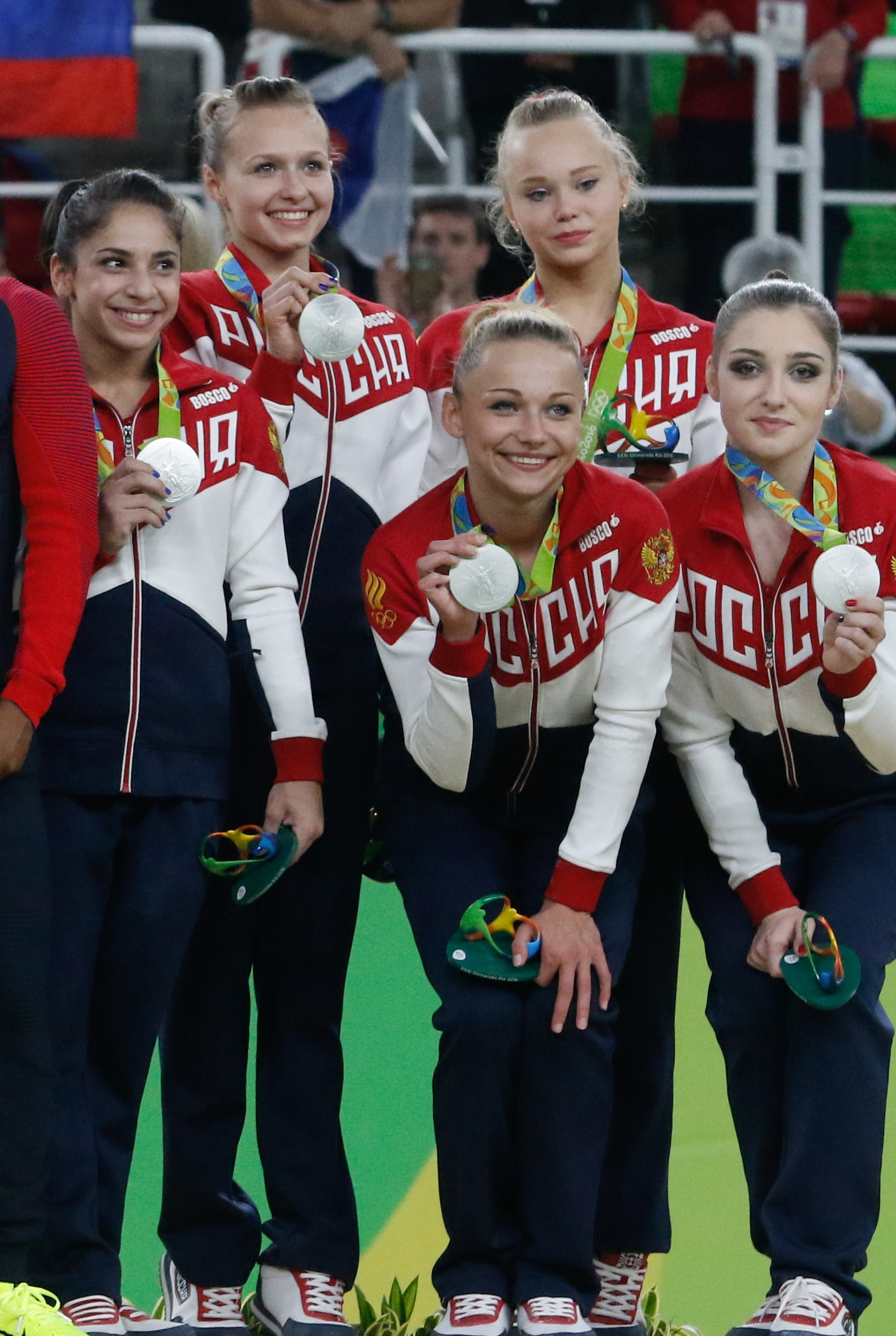 Rio de Janeiro - Ginastas dos Estados Unidos levam medalha de ouro na disputa por equipes feminina nos Jogos Olímpicos Rio 2016, Rússia fica com a prata e China, o bronze. (Fernando Frazão/Agência Brasil)